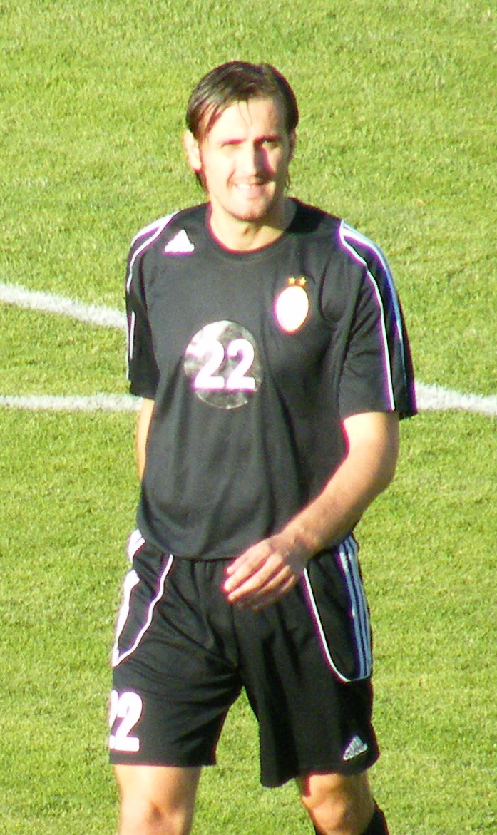 Pero Pejić Croatian football player